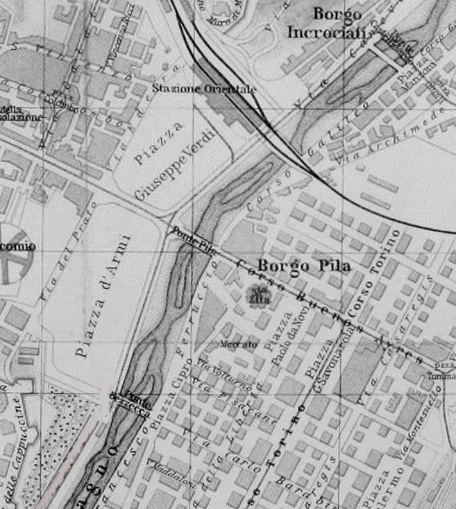 Genoa (Italy), map of Foce area in the first years of 19th century (from File:Telfer Genoa 1914-1918.jpg already on Commons)